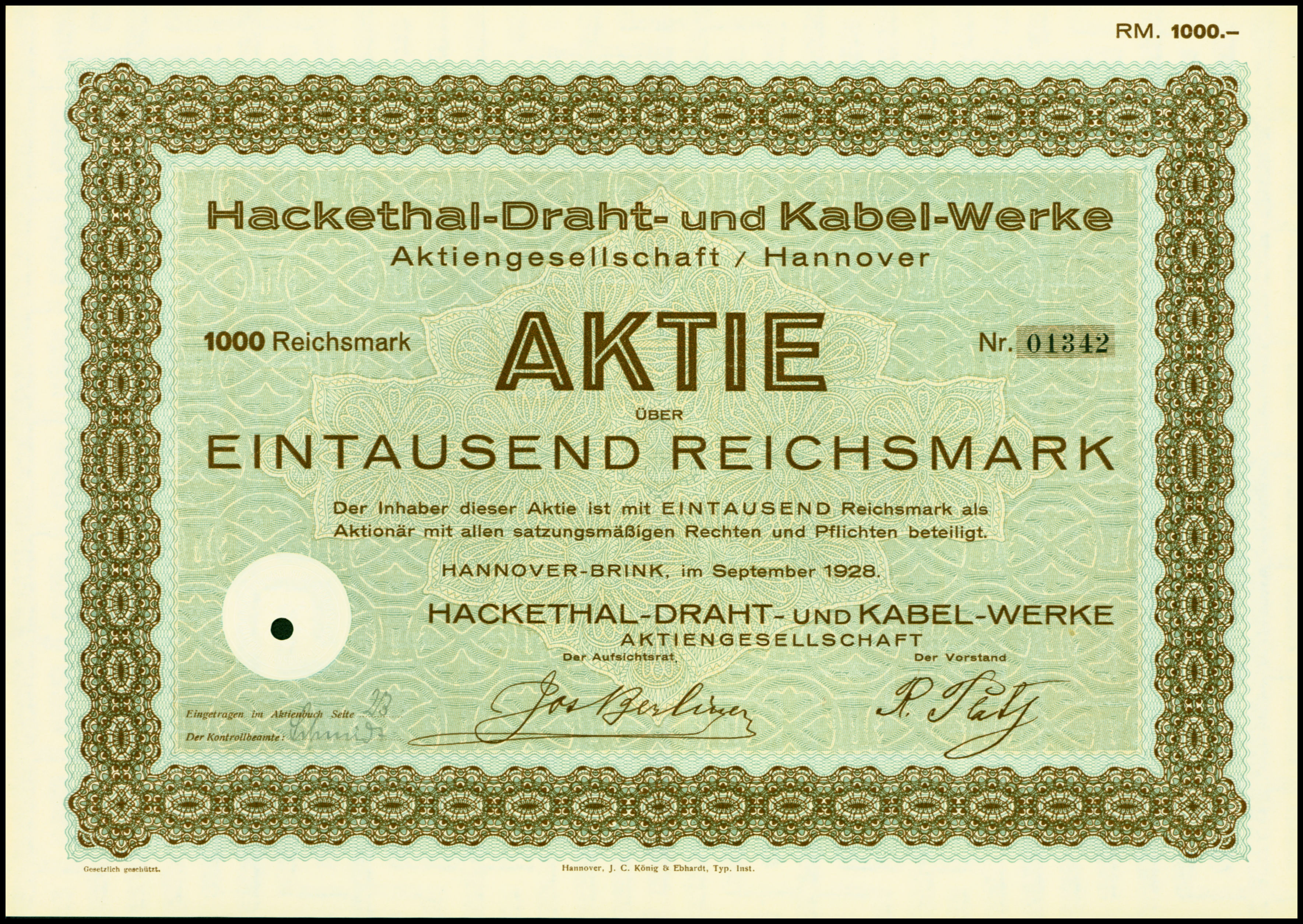 Share of the Hackethal Draht & Kabelwerke AG, issued September 1928